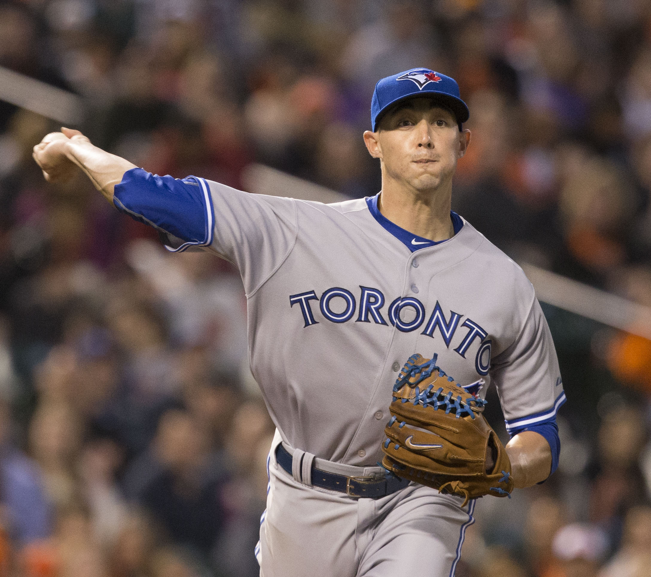 Blue Jays at Orioles 04/11/15